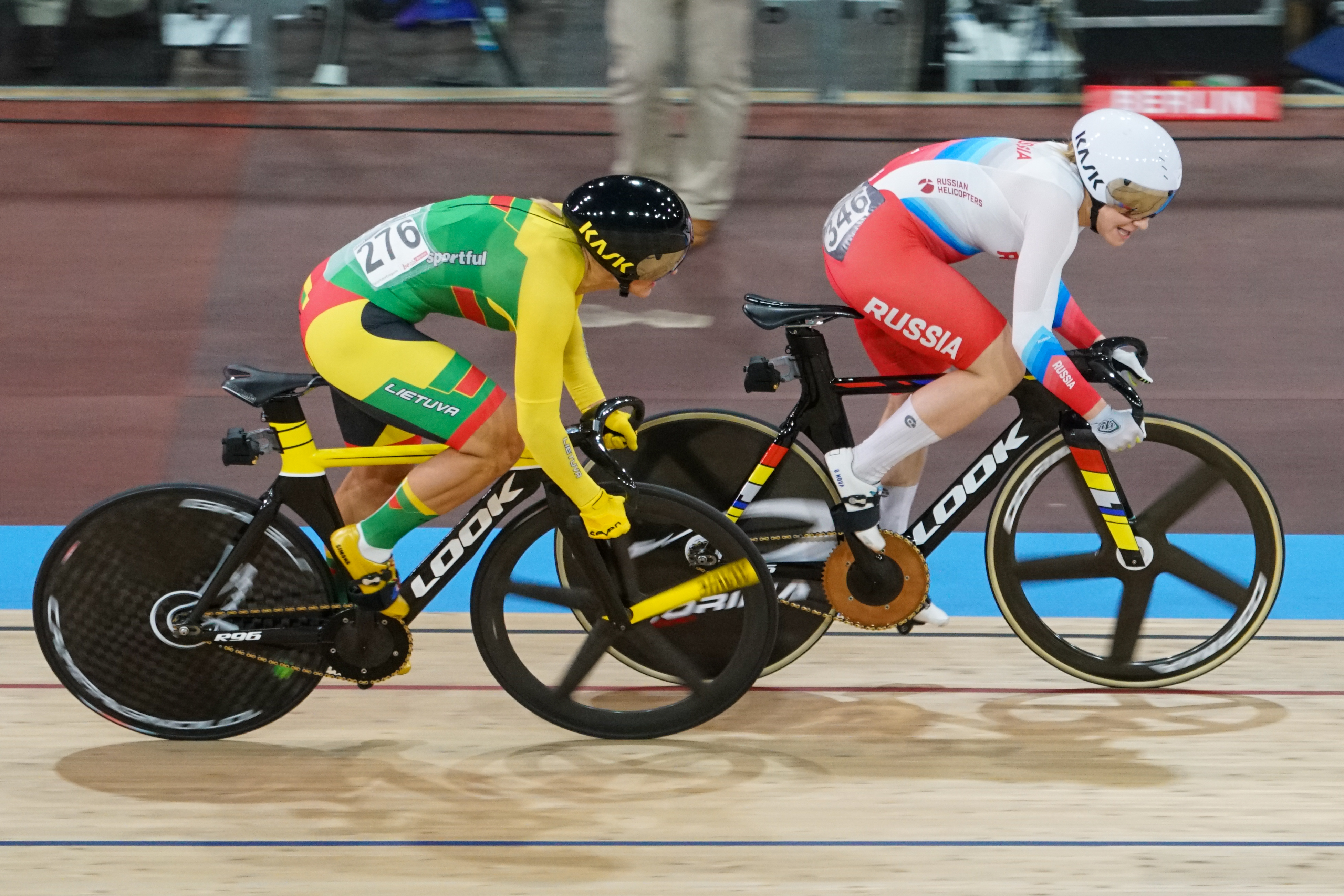 2020 UCI Track Cycling World Championships – Women's Sprint Quarterfinals - Anastasiia Voynova (front), Simona Krupeckaitė